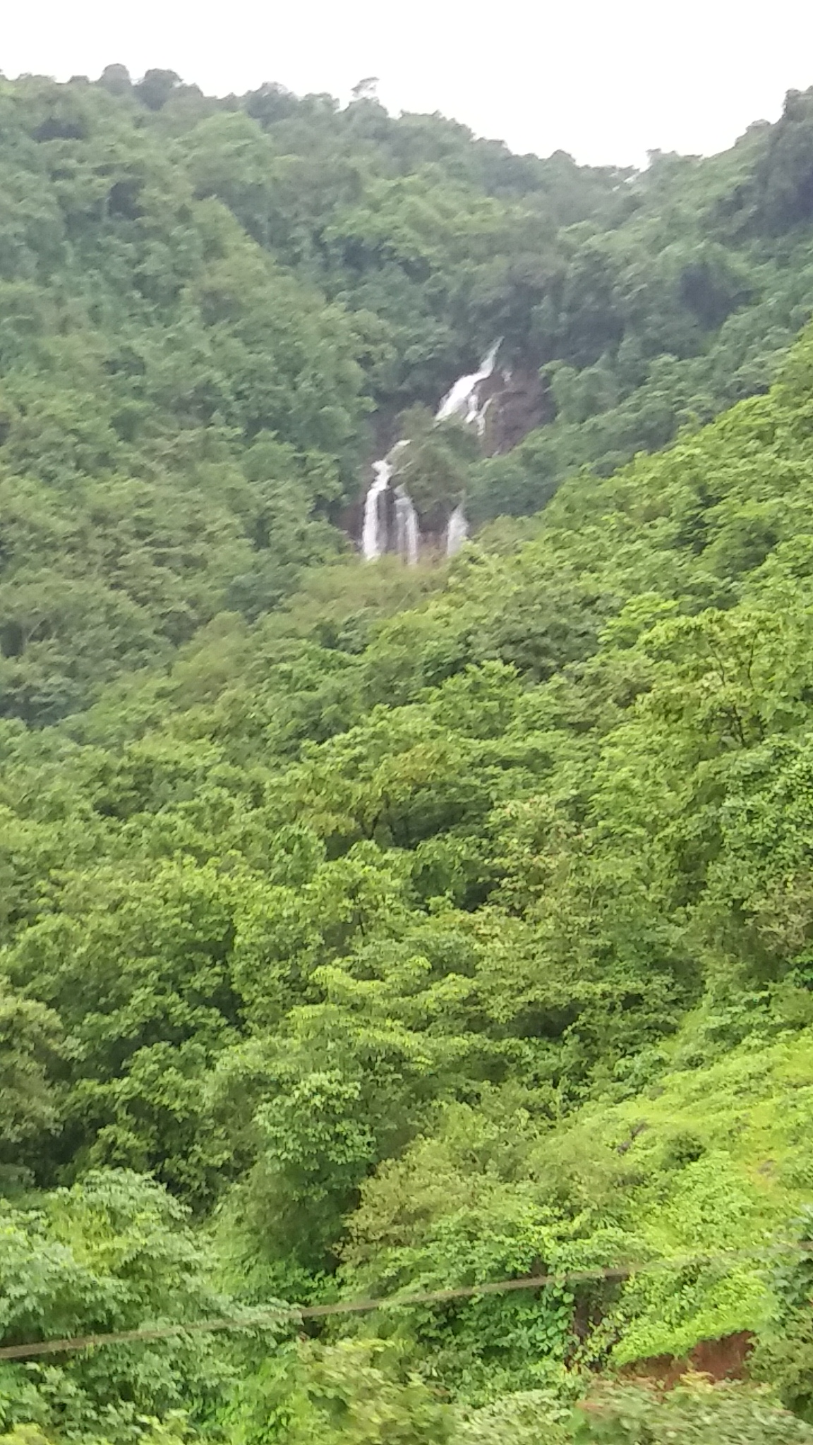 This work i have done when i was travelling from Mangalore to goa by train.